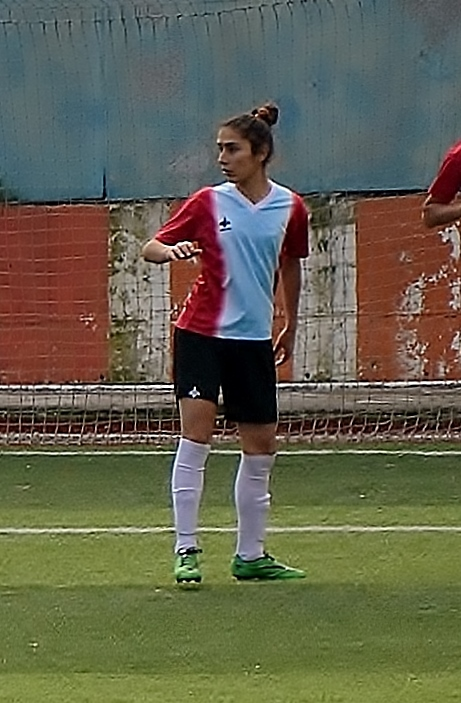 Emine Demir playing for Trabzon İdmanocağı in the 2014-15 season